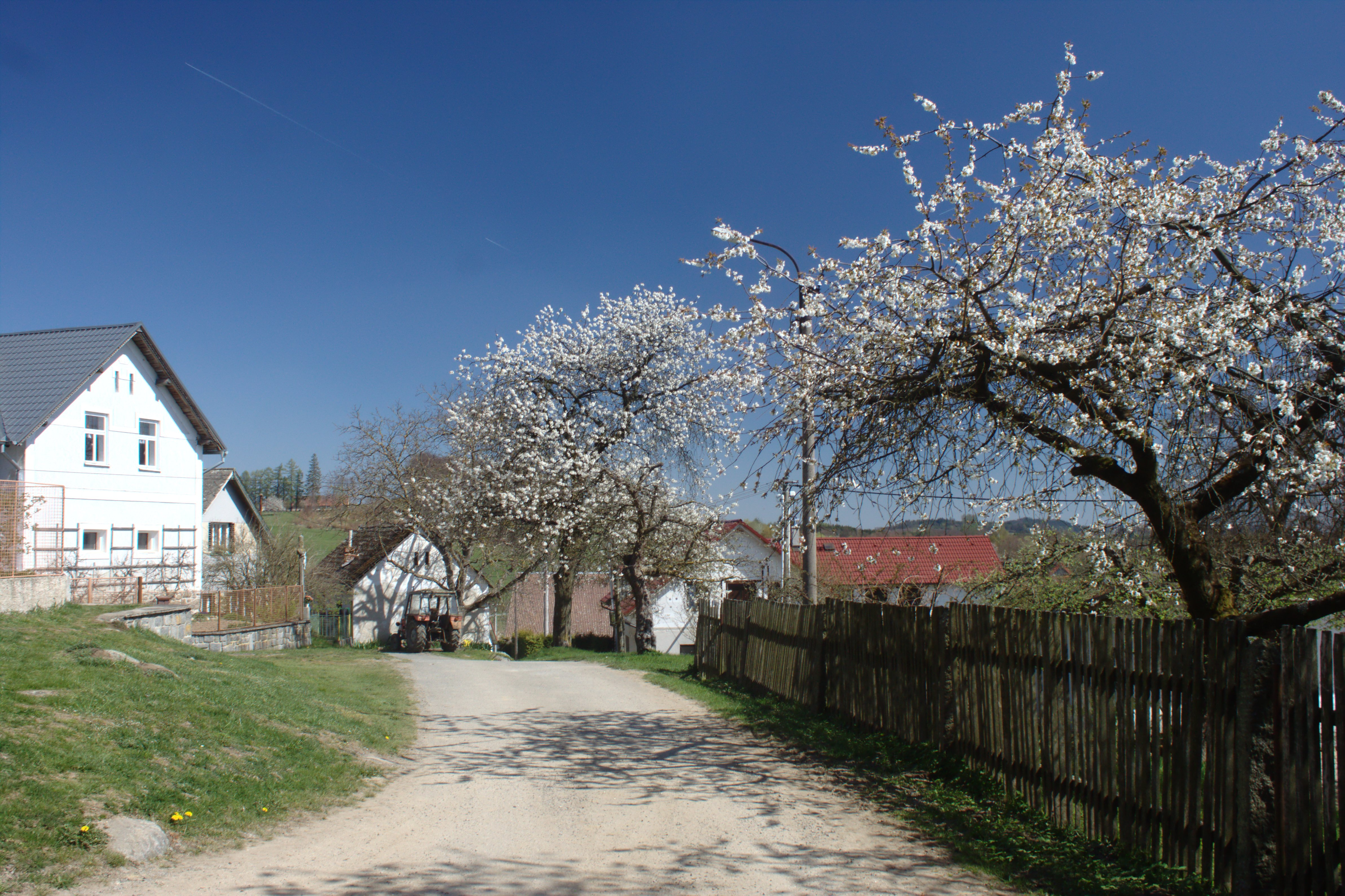 This photograph was created as a part of Wikiexpedition Mladá Vožice, a project supported by Wikimedia Foundation grant.